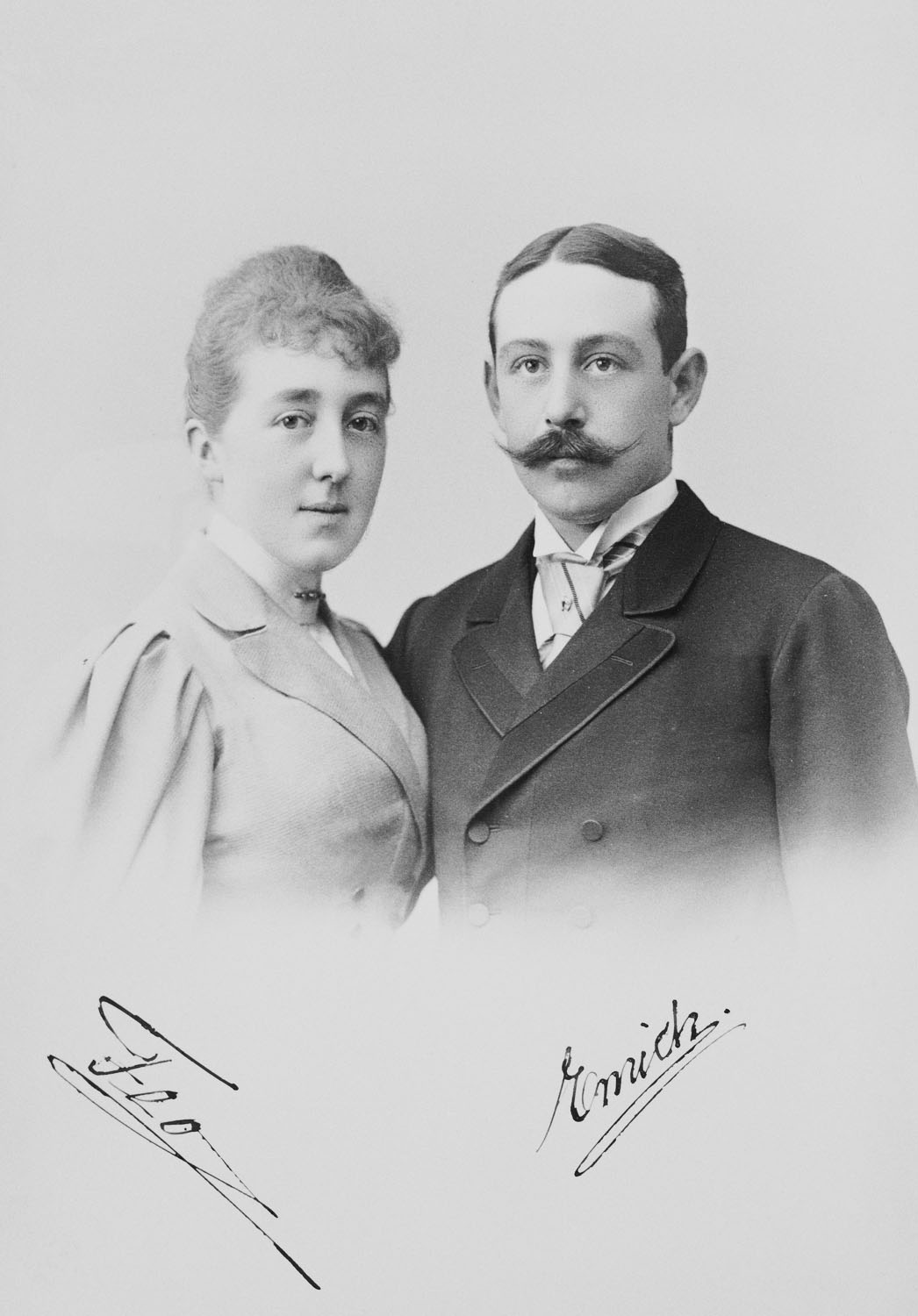 Princess Feodore, daughter of Herman (Prince of Hohenlohe Langenburg) and Prince Emich, son of Prince and Princess of Leiningen